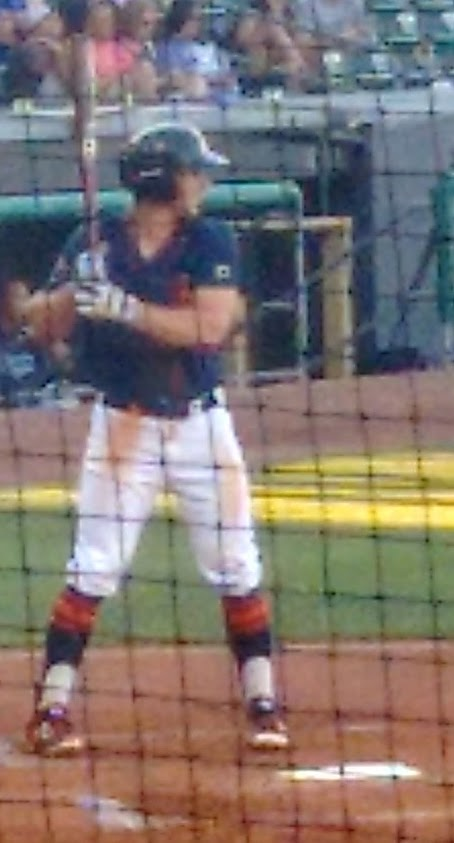 Kevin Padlo with the Bowling Green Hot Rods in 2016